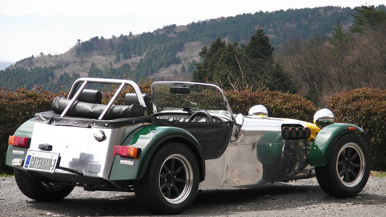 Caterham Seven 1700BDR-S